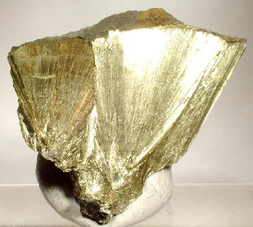 Millerite Locality: Perseverance Mine (Boulder Perseverance Mine), Kalgoorlie, Kalgoorlie-Boulder City, Goldfields-Esperance region, Western Australia, Australia (Locality at ) An excellent and showy specimen of brassy, highly lustrous, intergrown, massive millerite needles from a VERY UNCOMMON Australian locality, the Perseverance Mine in Western Australia. 3.9 x 3.5 x 2.2 cm